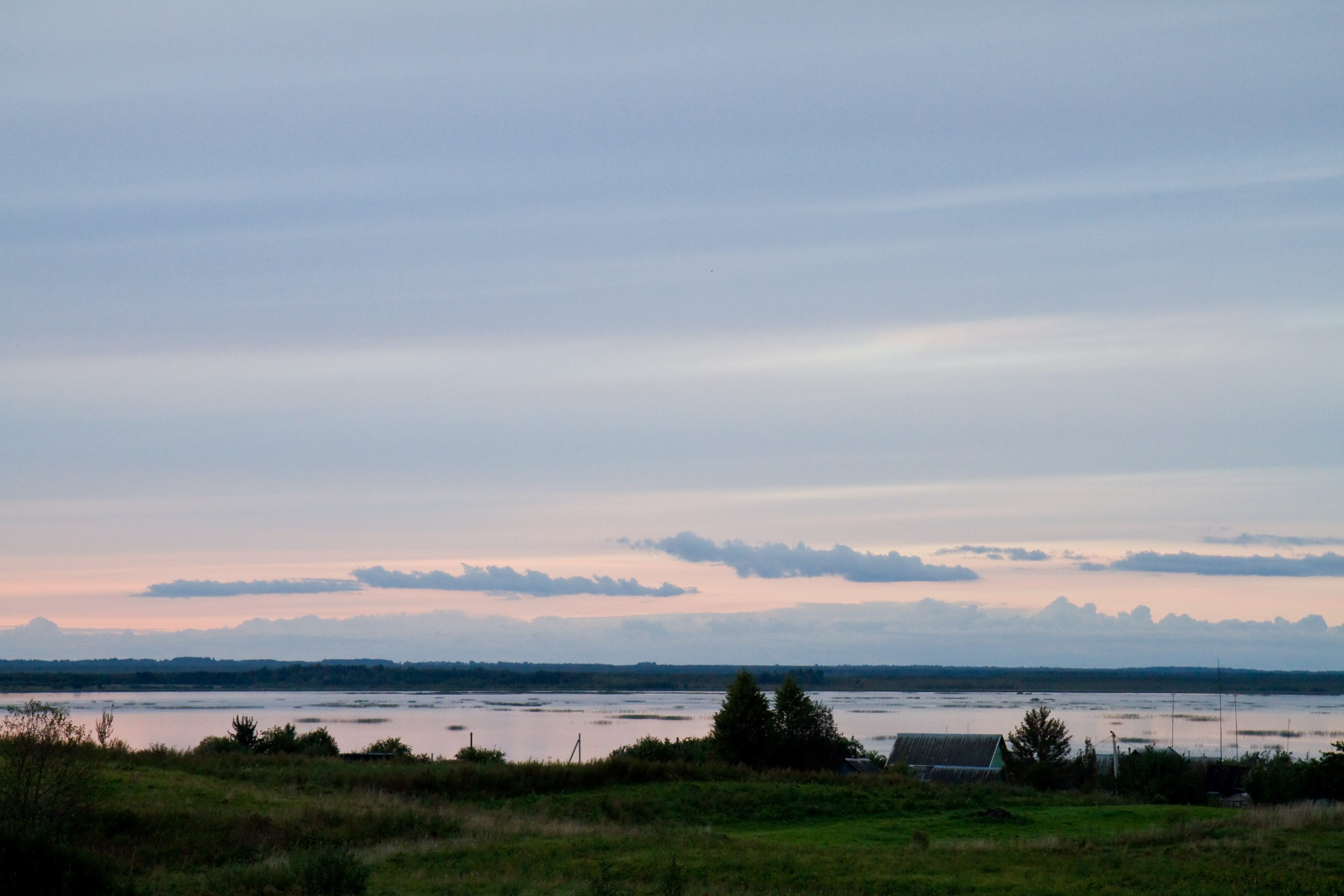 Aśviejskaje Lake. Vierchniadźvinsk district, Viciebsk province, Belarus.